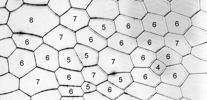 2-dimensional foam (bubbles lie in one layer, colors inverted, with edges)